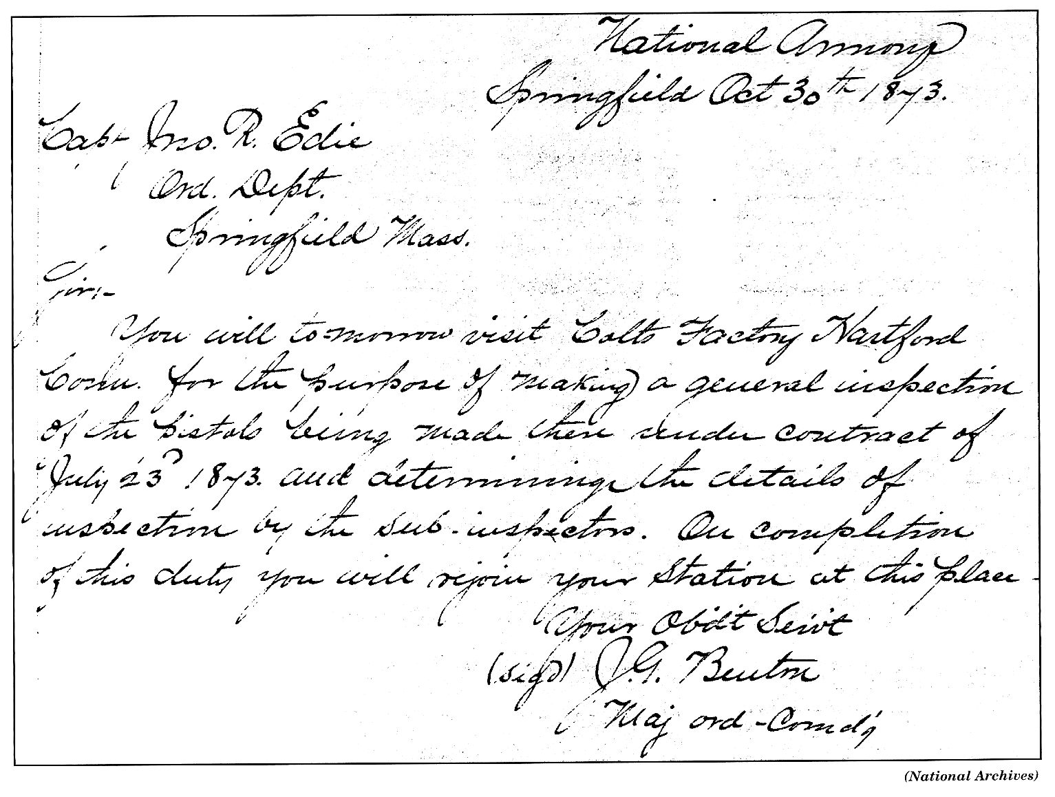 Correspondence Colonel James G. Benton, Commander of the National Armory, Springfield, to Capt. John R. Edie, Oct. 30th 1873.